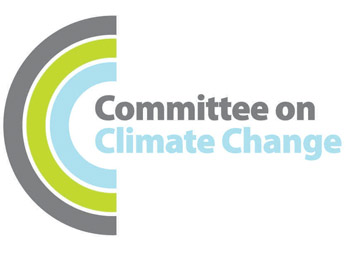 Logo of the Committee on Climate Change